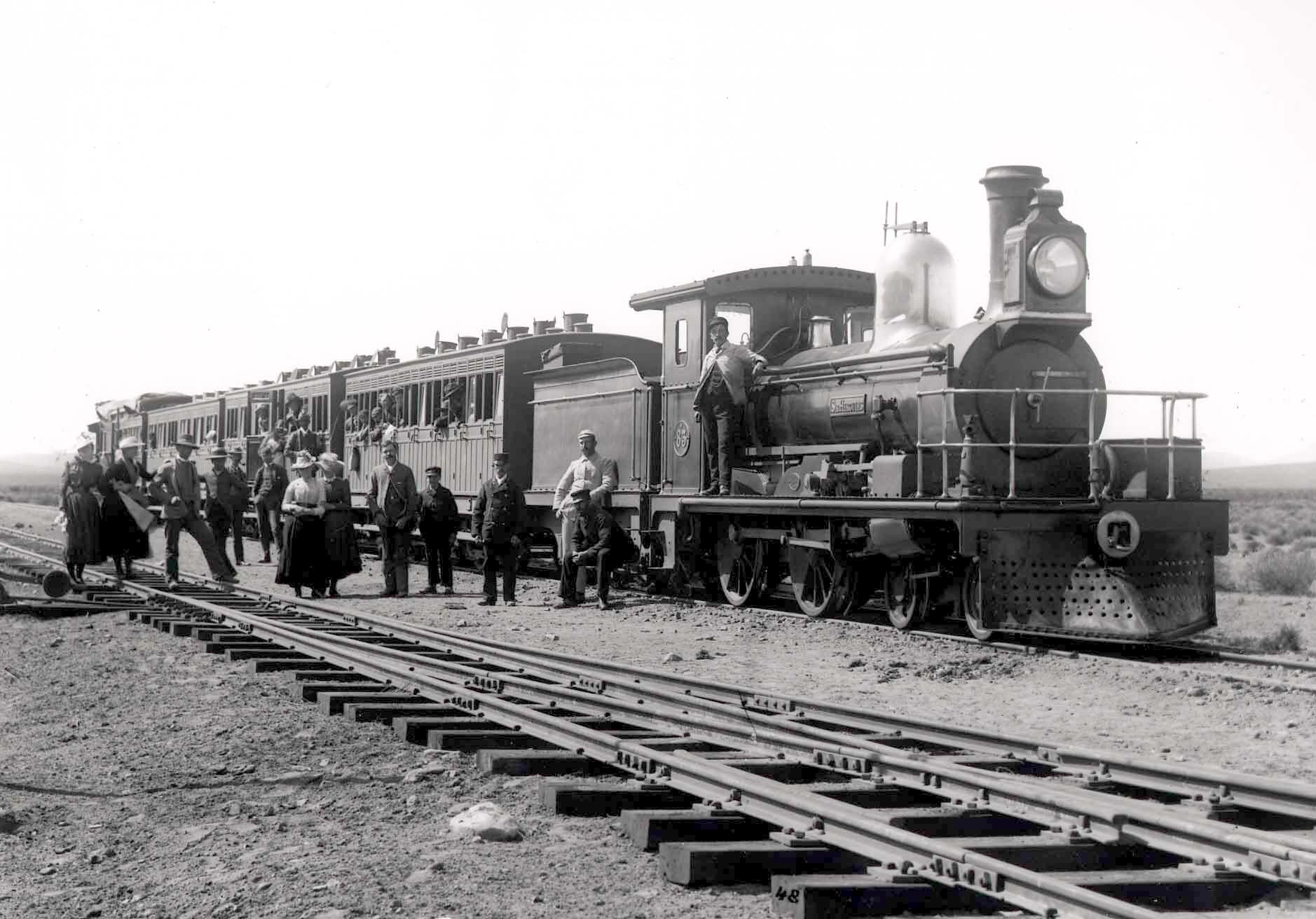 Cape Government Railways 3rd Class 4-4-0 of 1883 no. M83 Sir Hercules (Four-coupled Joy)